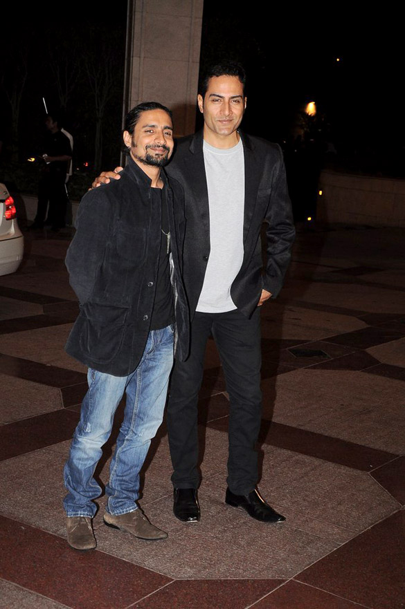 Chandan Roy Sanyal, Sudhanshu Pandey at Esha Deol's sangeet ceremony